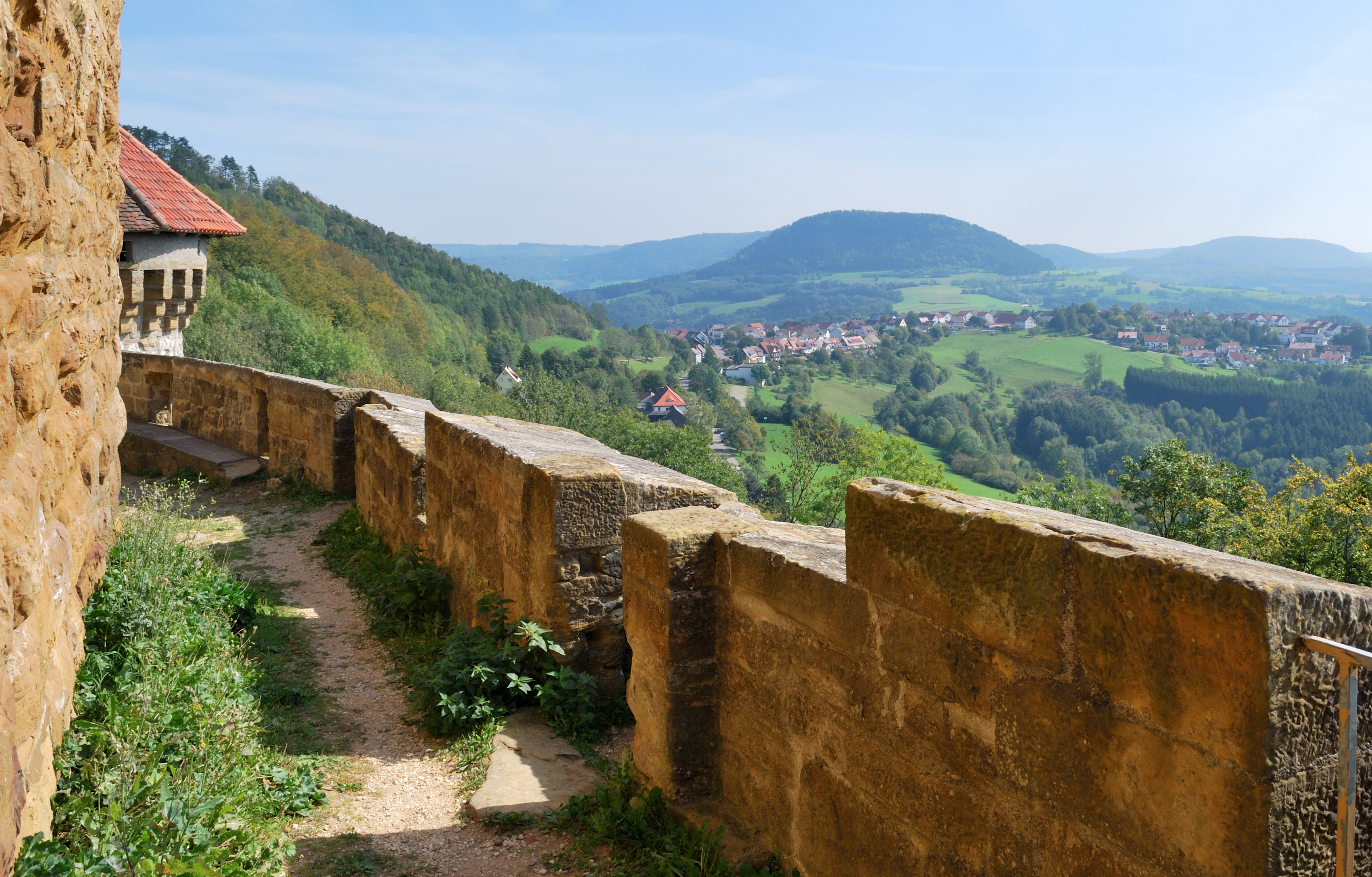 On the castle ruin Hohenrechberg in the Swabian Alps in Baden-Württemberg (Germany).